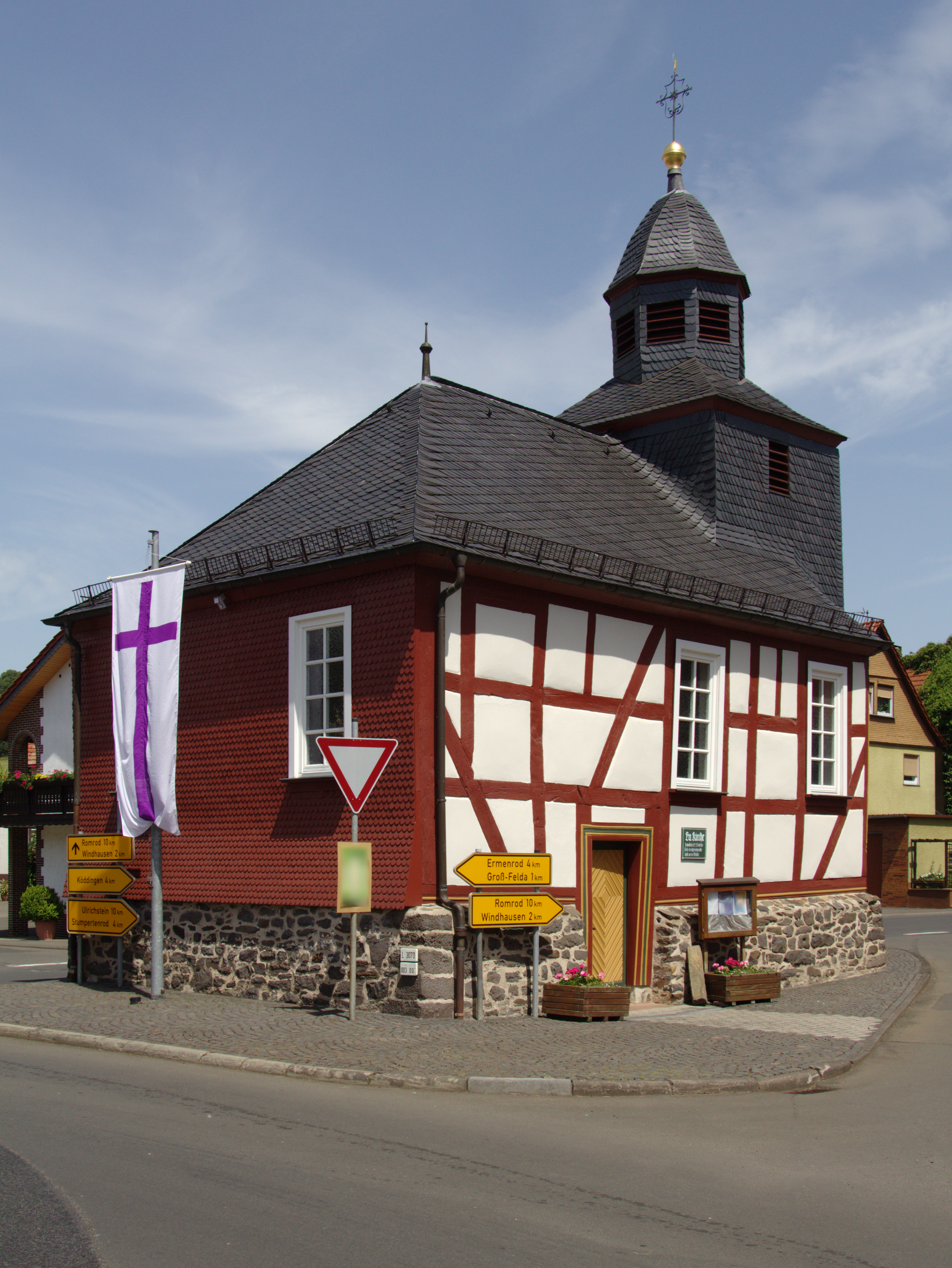 Half-timbered Church (potestant) in Kestrich, Feldatal, Hesse, Germany